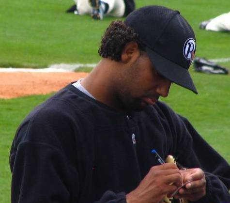 Ricardo Rodriguez of the Oklahoma Redhawks signs autographs in Nashville, Tennessee in 2005.